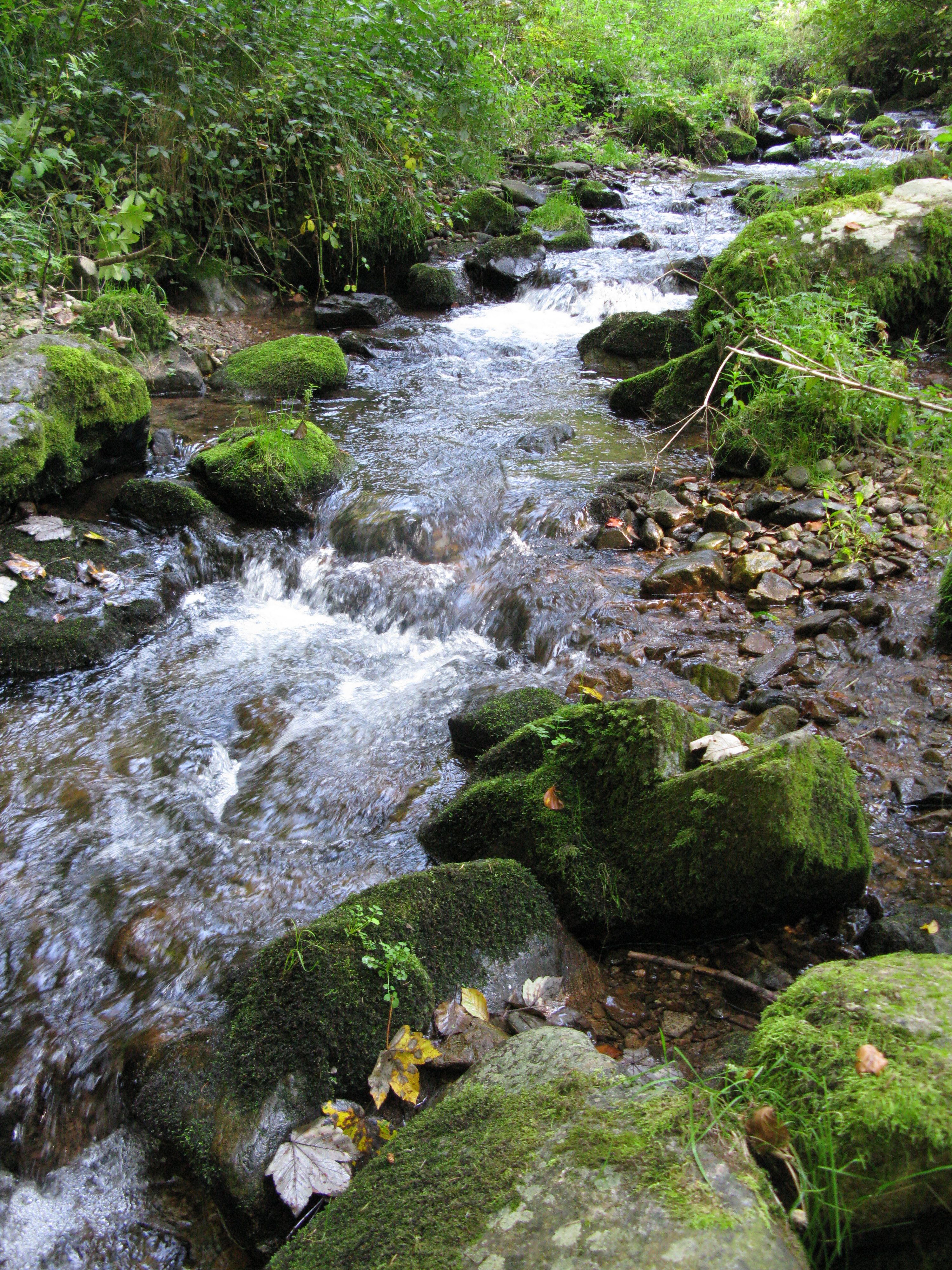 Holzschlagbach (upper Wagensteigbach)